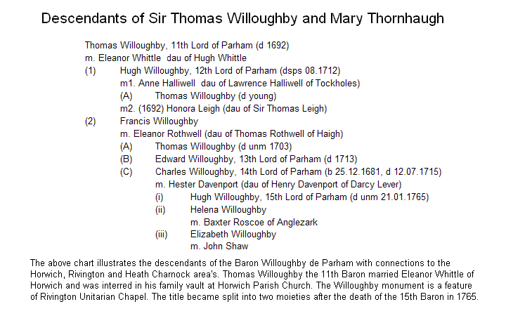 Chart illustrating the descendants of Lord Willoughby to the end of the barony at the 15th Baron Willoughby de Parham